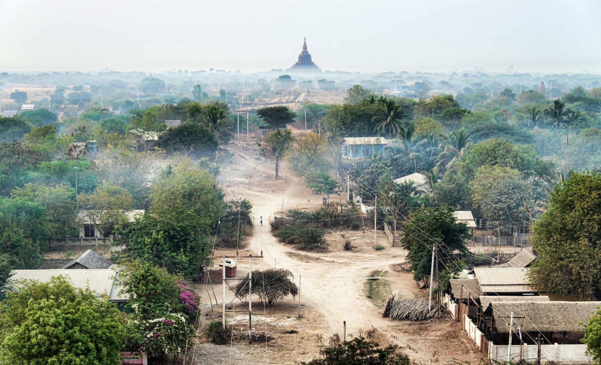 Out of the way places...